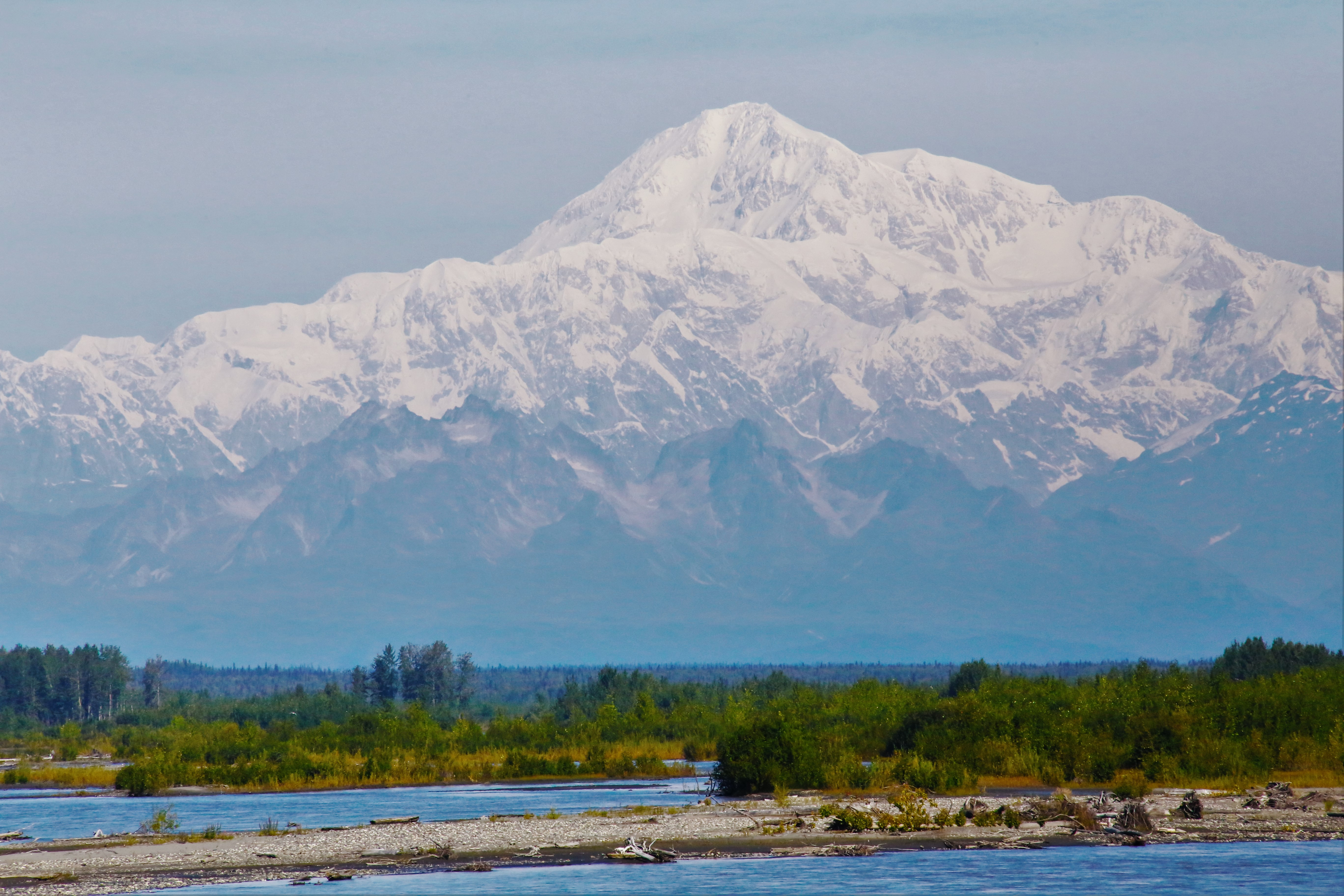 Mount Denali, Alaska.